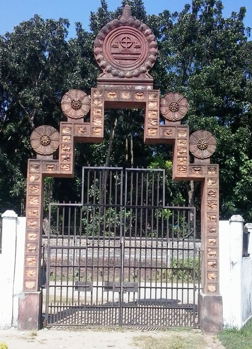 Ruin of maynamati buddhist vihar (1)